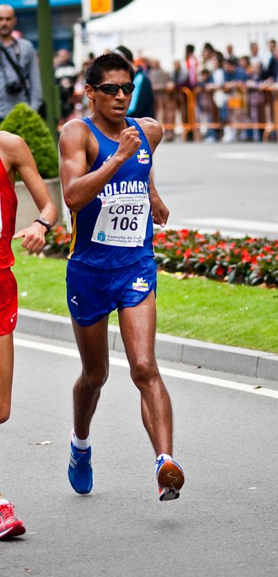 Luis Fernando López from Colombia in the sprint final on the last 400 metres against Yao Zhu from China in the 20km race walk event in La Coruña 2010, 19 June